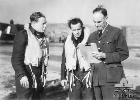 United Kingdom: England, Greater London, Kenley. Squadron Leader K. W. Truscott DFC (left) and 402150 Sergeant K. B. Chisholm (centre) of No. 452 (Spitfire) Squadron RAAF at an RAF station, with the Squadron Intelligence Officer.